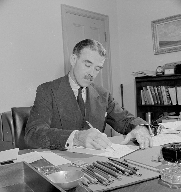 Title: Washington, D.C. The Australian Legation. Minister Casey in his chancery office